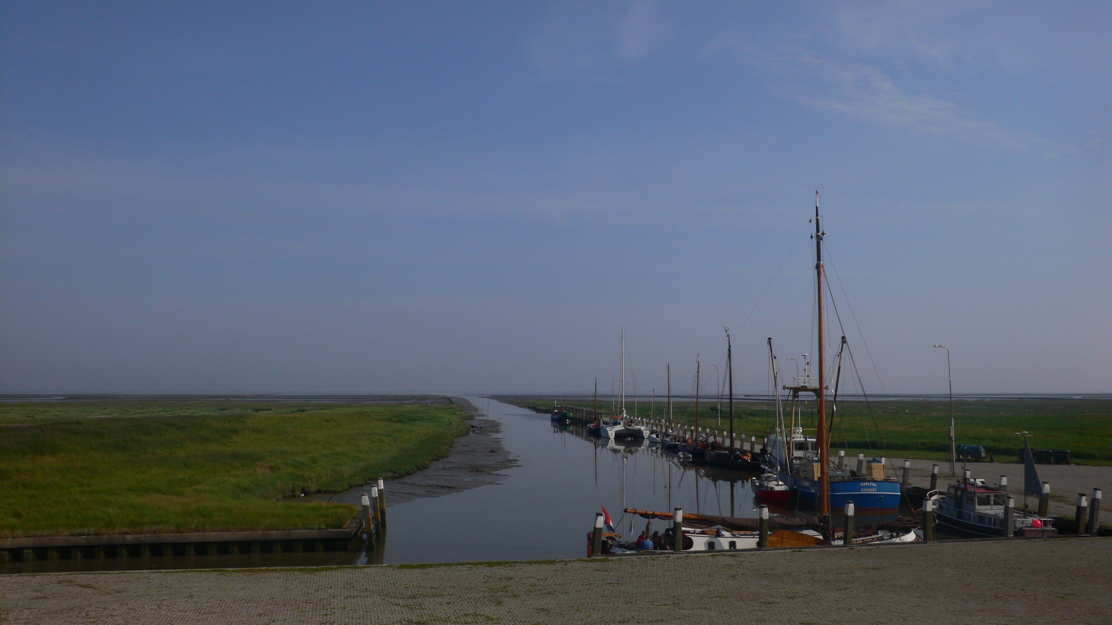 The Noordpolderzijl, Groningen, The Netherlands.